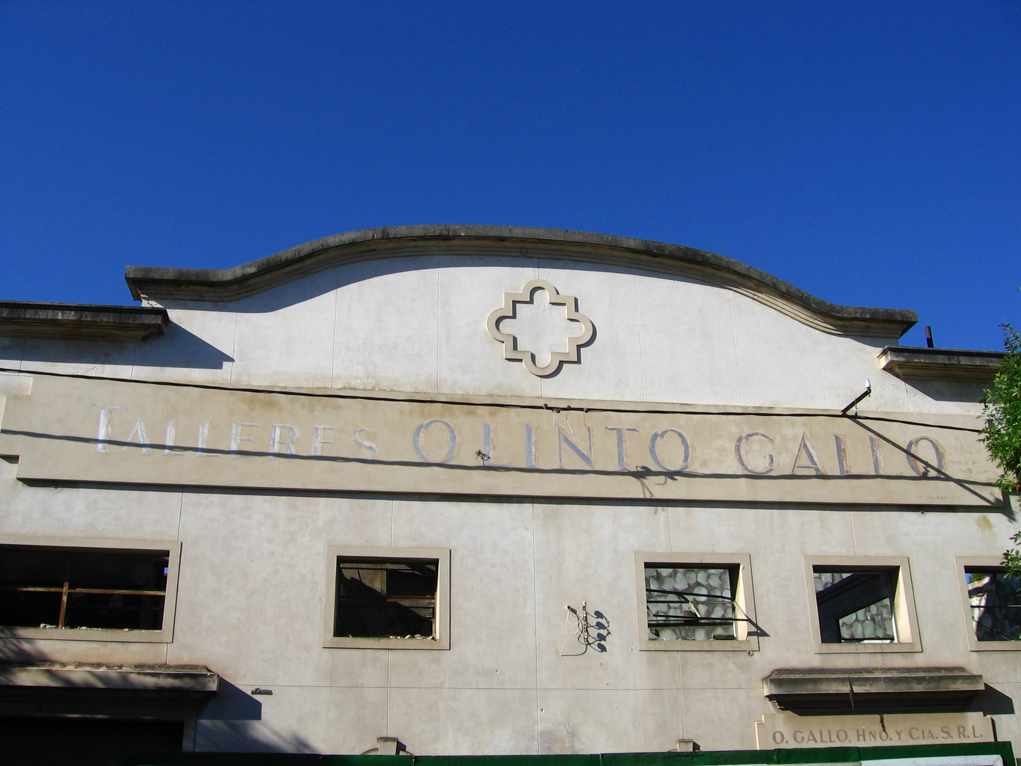 Olinto Gallo Workshops, an old engraving and chiseling workshop in Rosario, Argentina.Talleres "Olinto Gallo" (Calle olivé 1055)